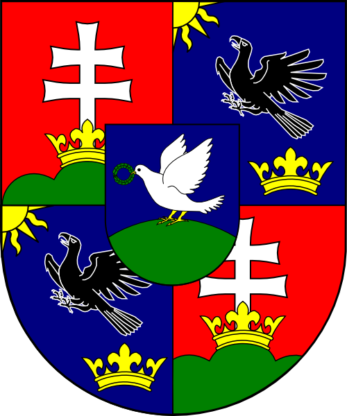 Coat of arms (shield only) of Miklós Széchényi, bishop of Győr, Hungary (1901 - 1911), bishop of Oradea Mare, Romania (1911 - 1923). Based on this